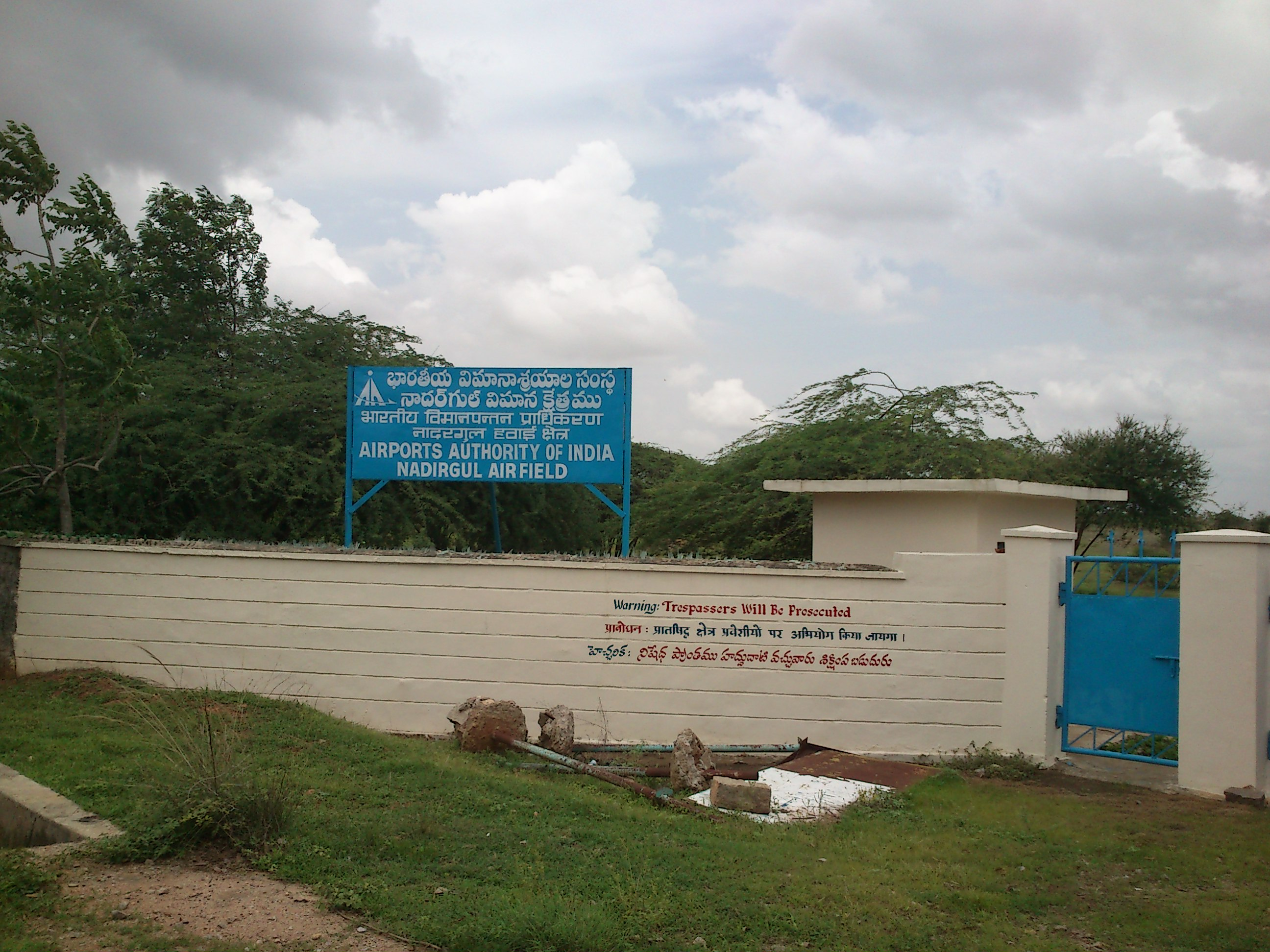 Main Gate of Nadirgul airport